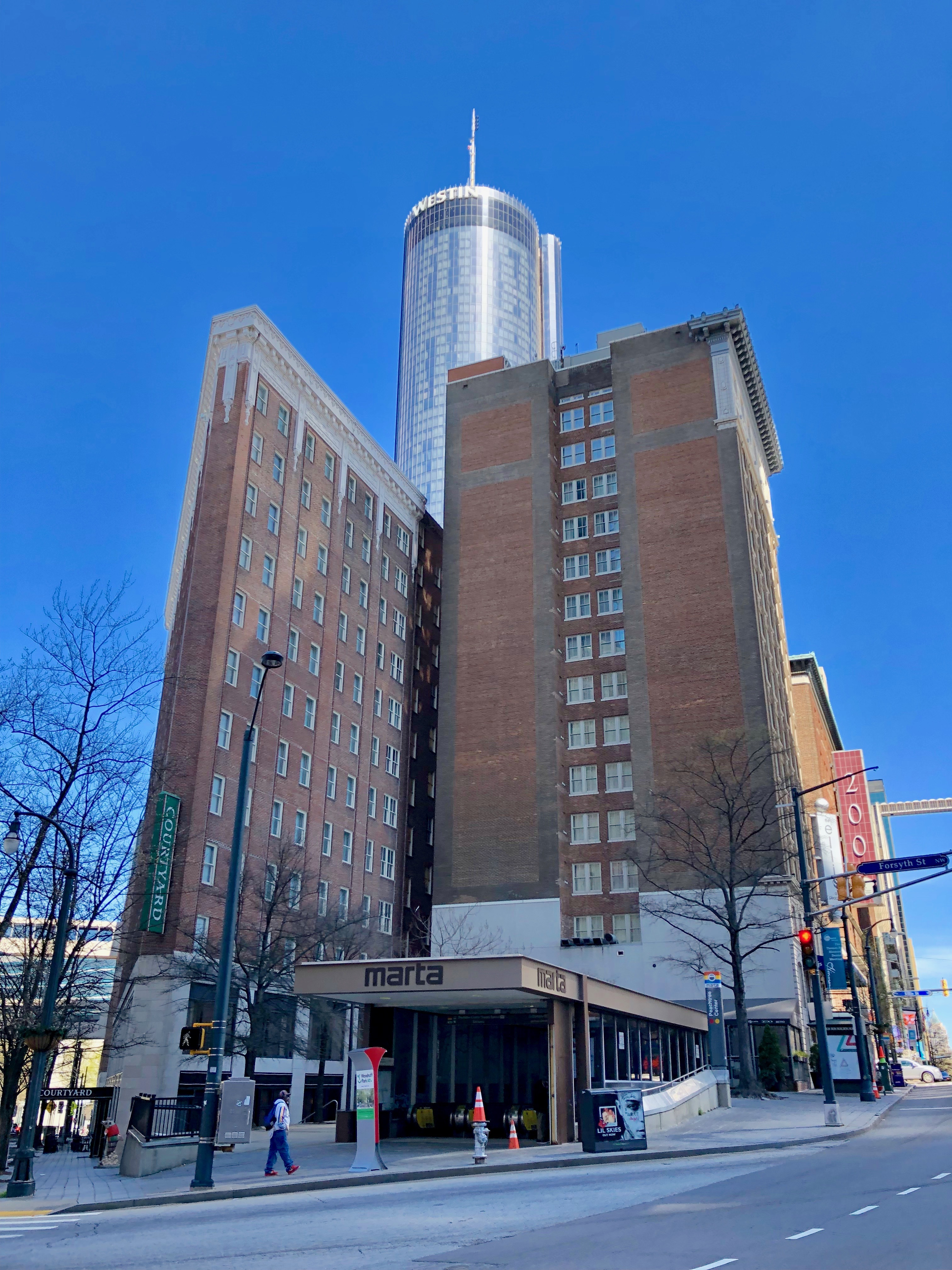 Carnegie Building and Old Winecoff Hotel (Ellis Hotel), Atlanta, GA